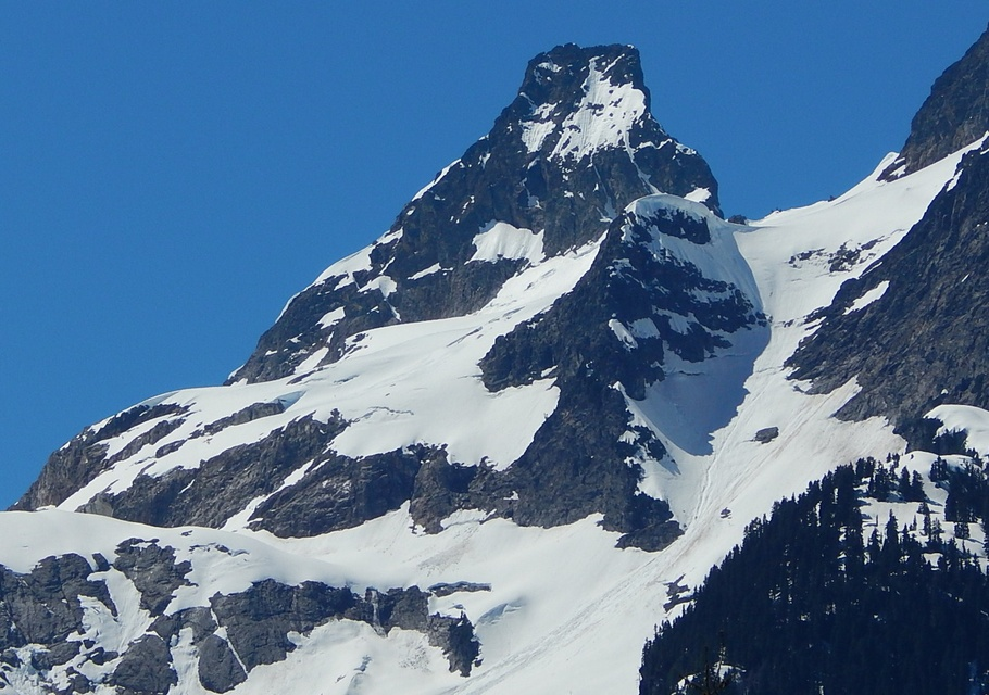 Paul Bunyans Stump seen from Diablo Lake Overlook. North Cascades National Park.